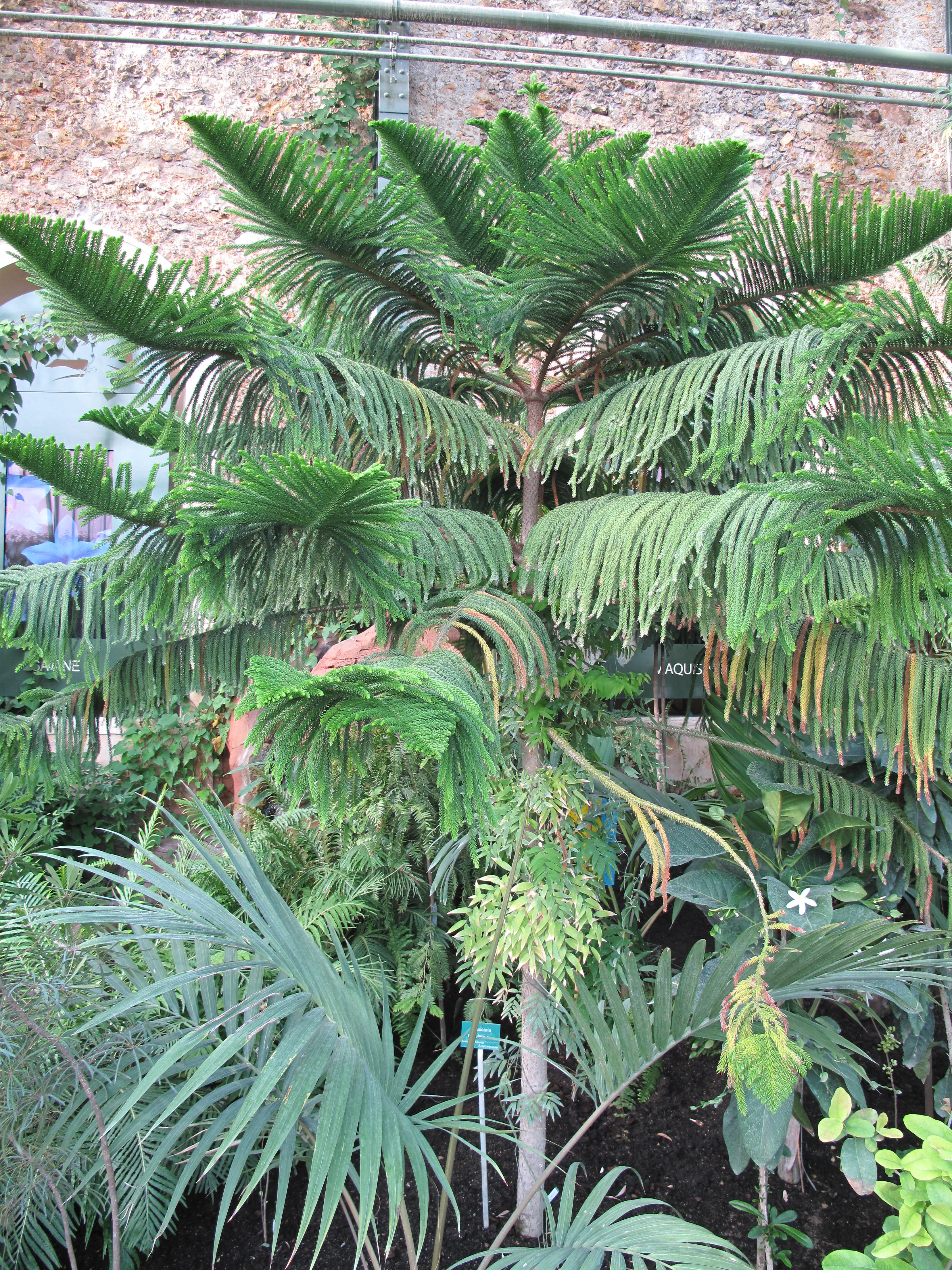 Araucaria subulata in the New-Caledonia greenhouse of the Jardin des Plantes in Paris. Identified by sign.